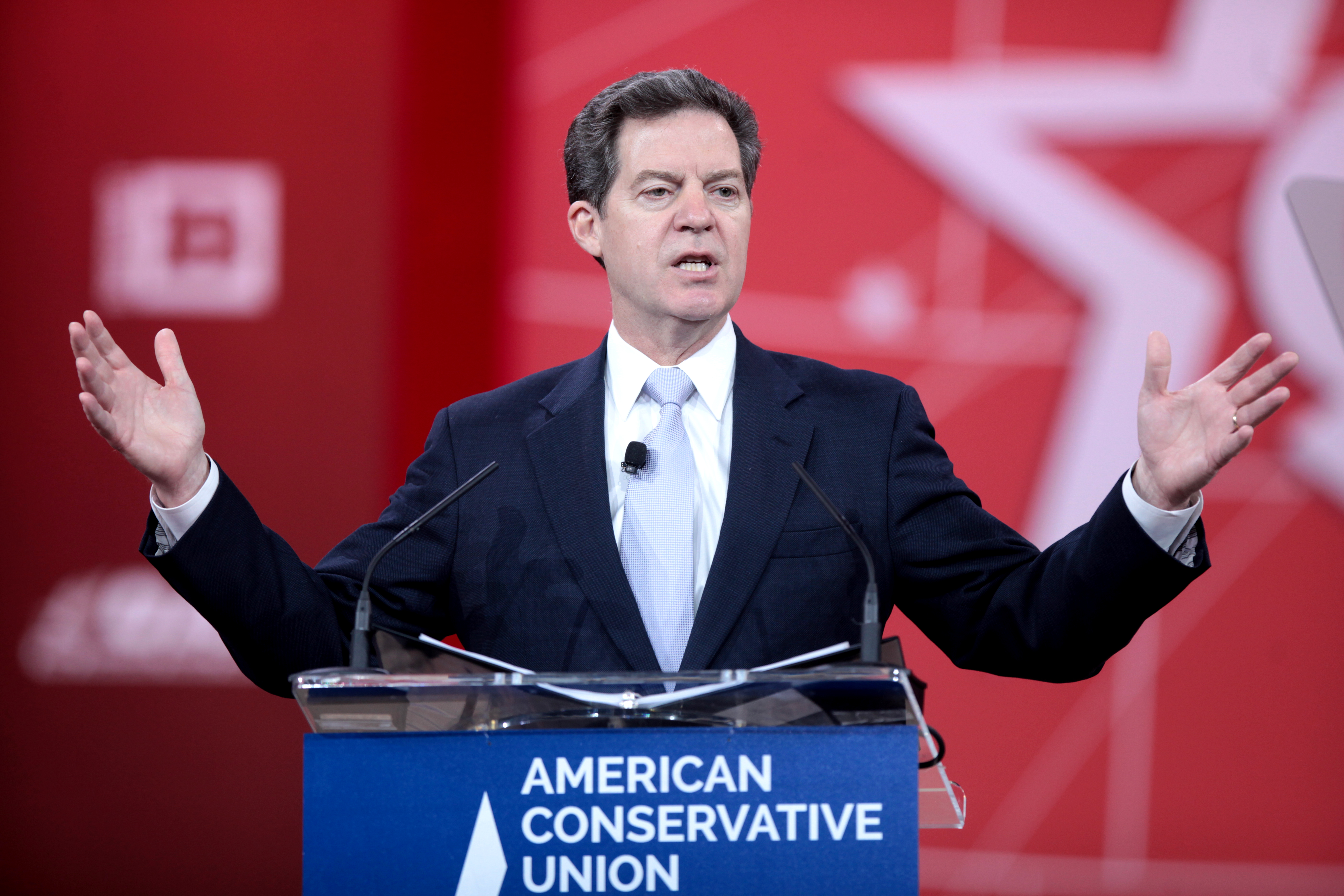 Sam Brownback speaking at CPAC 2015 in Washington, DC.